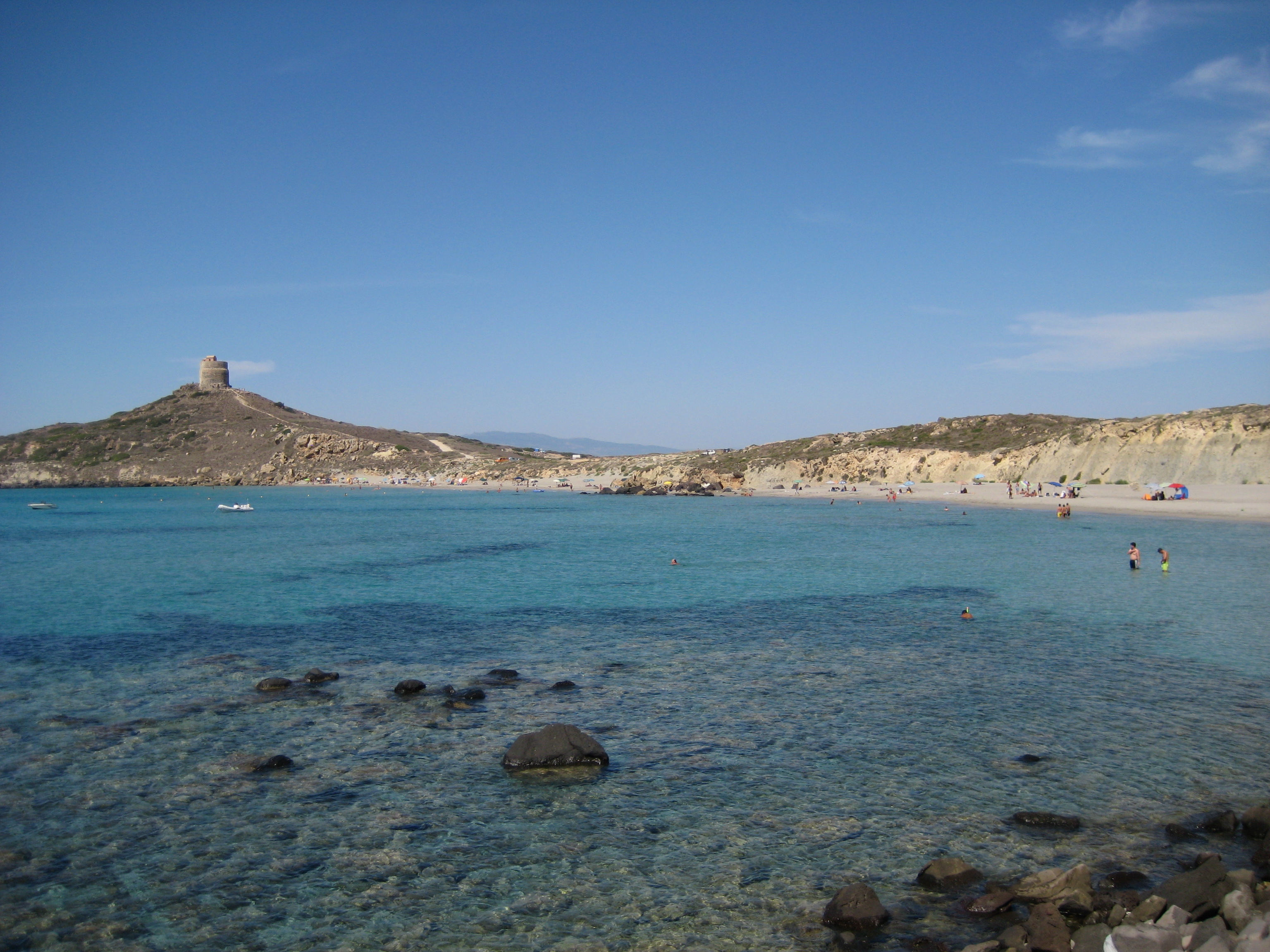 beaches of capo san marco, near san giovanni di sinis, Oristano, Sardinia